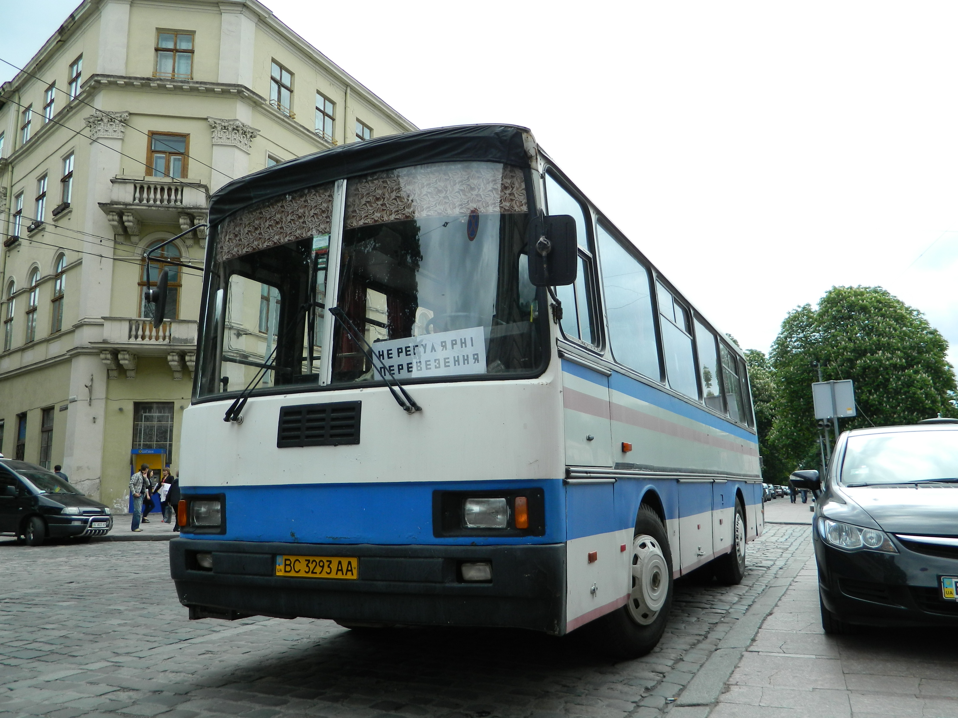 LAZ-A141, irregular transportation.